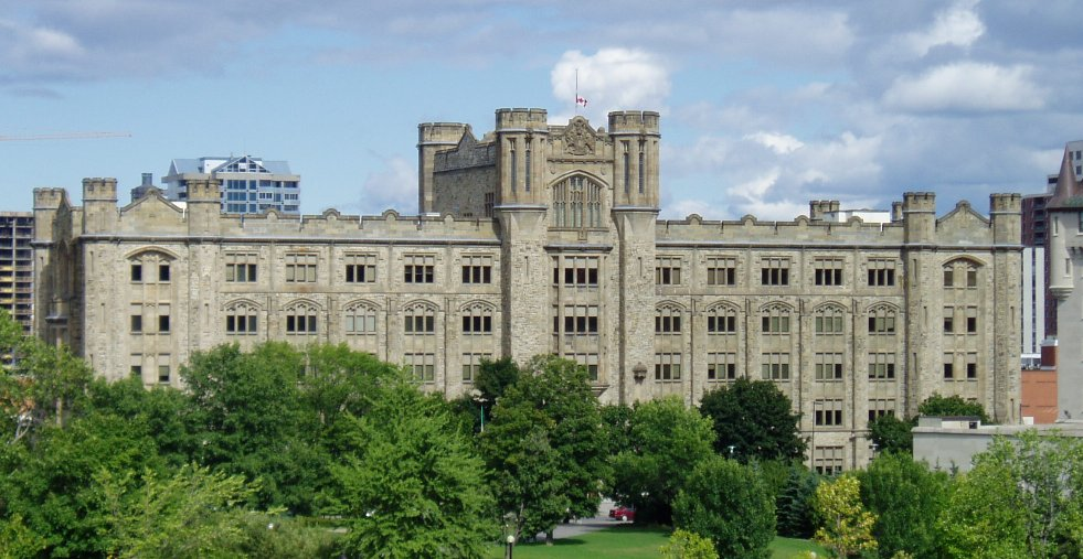 The Connaught Building in Ottawa, Canada.